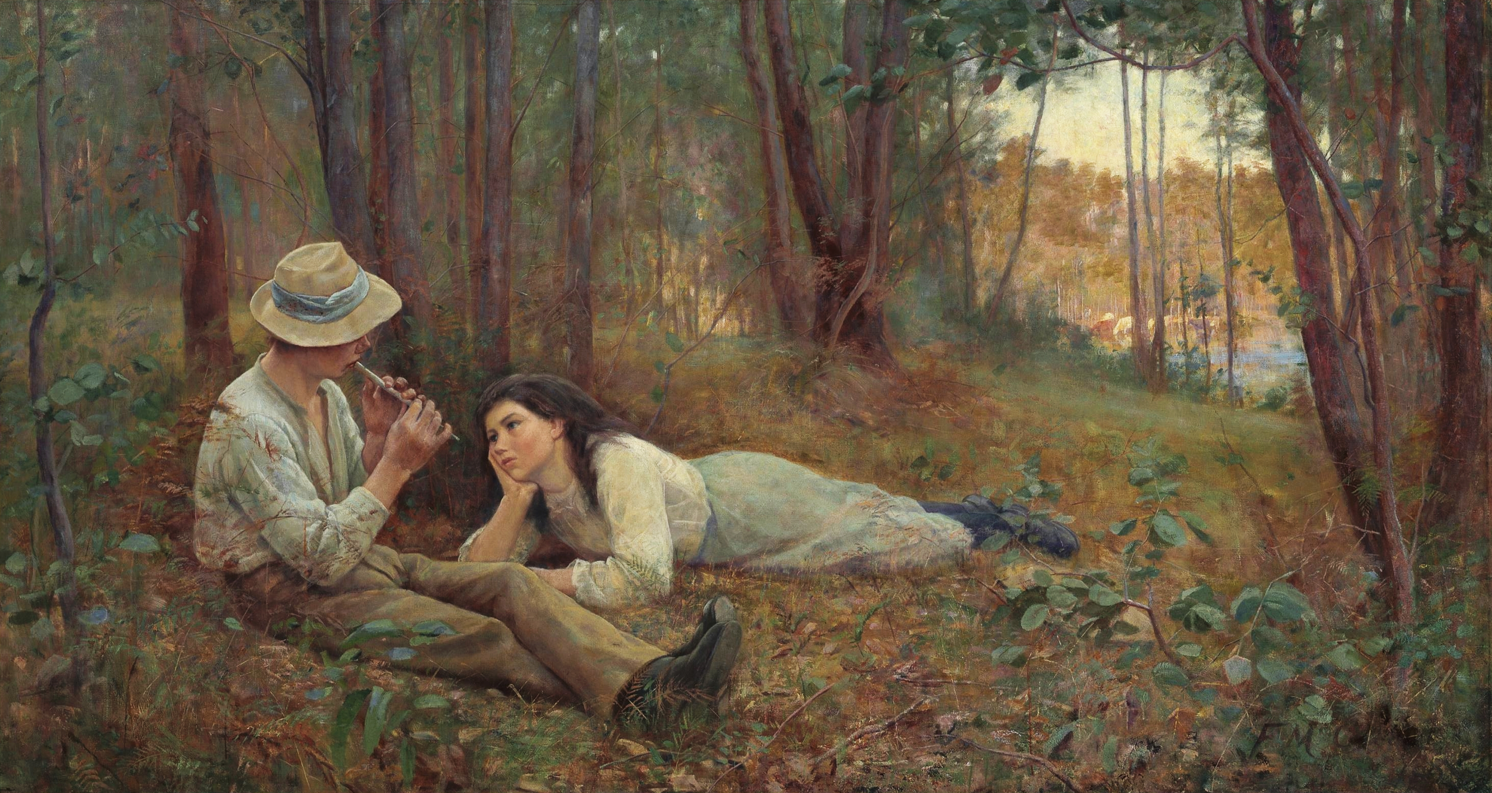 One of McCubbin's major early works, 1893